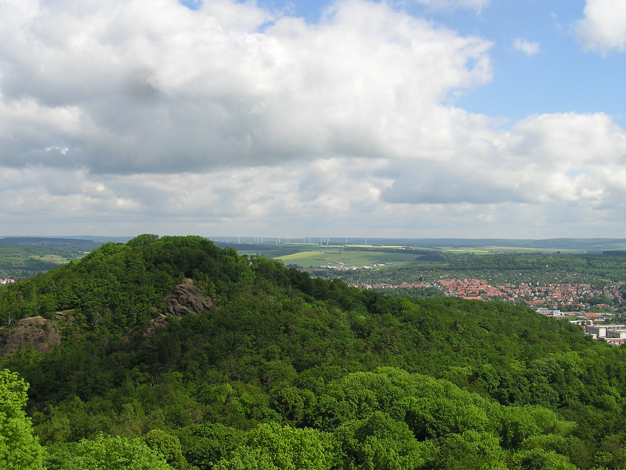 Eisenach (partial), view from a lookout point at the Wartburg